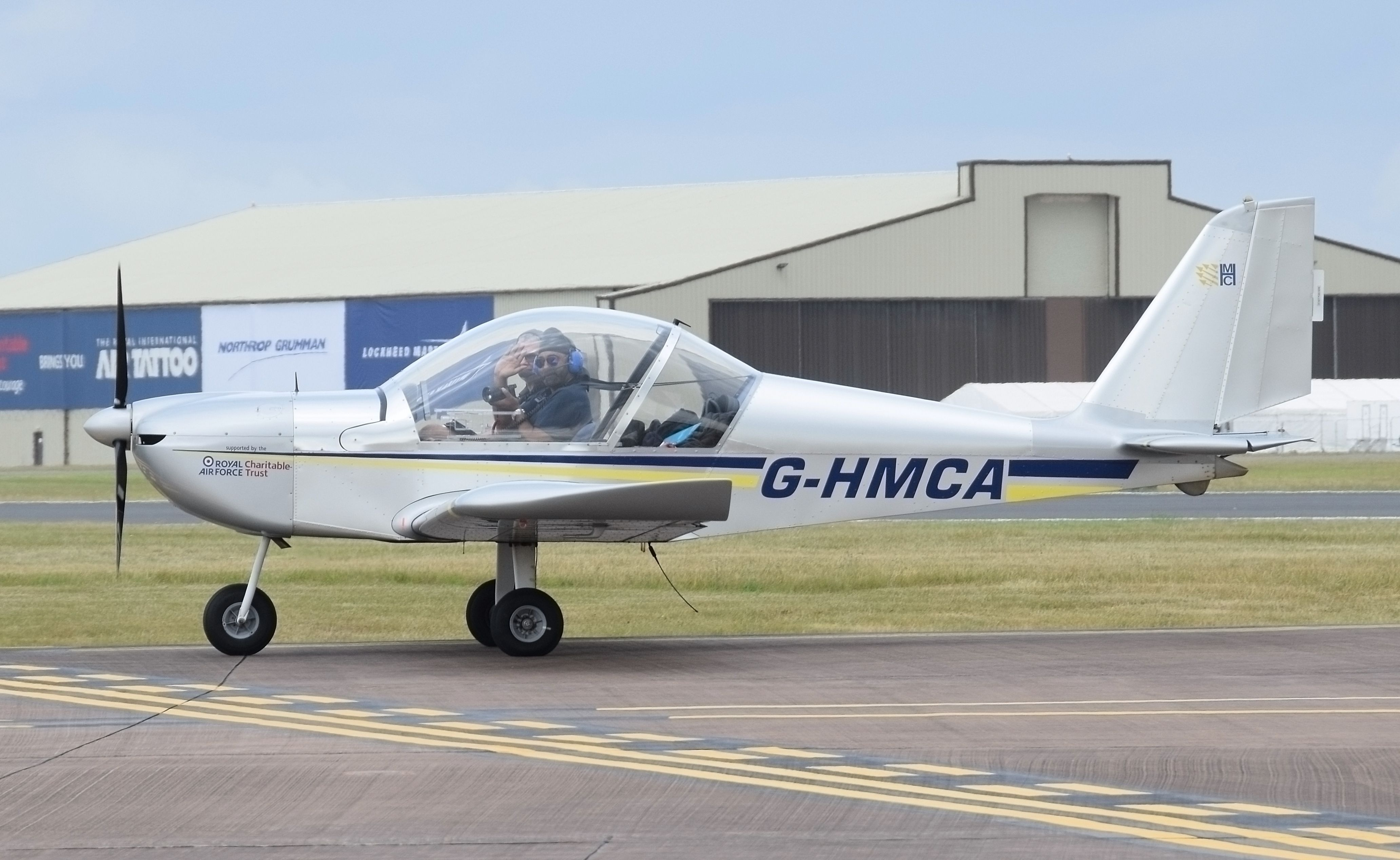 Evektor EV-97 Eurostar (reg G-HMCA) arrives at the 2017 Royal International Air Tattoo, RAF Fairford, England. This aircraft is flown by the RAF Halton Microlight Club (Buckinghamshire) - which comes under the RAF Microlight Flying Association. SORRY ABOUT THE FILENAME ERROR, THE DATE WAS THE 13TH NOT THE 17TH.